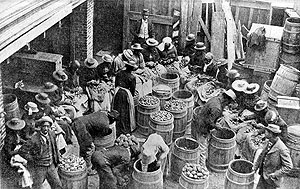 Workers sort seed potatoes that will be used to restore inundated fields following the Sea Islands, South Carolina Hurricane, which struck on August 27, 1893.